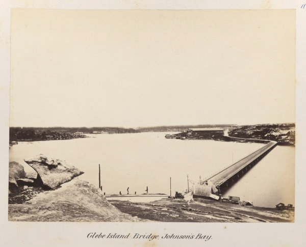 Glebe Island Bridge at Johnson's Bay, Sydney, New South Wales. Title devised by National Library of Australia cataloguer based on the inscription beneath photograph. In: My tour, 1878-79, vol.1.[1] Inscriptions: "Sydney"--In ink at head of page. "Glebe Island Bridge at Johnson's Bay"--In ink beneath photograph.